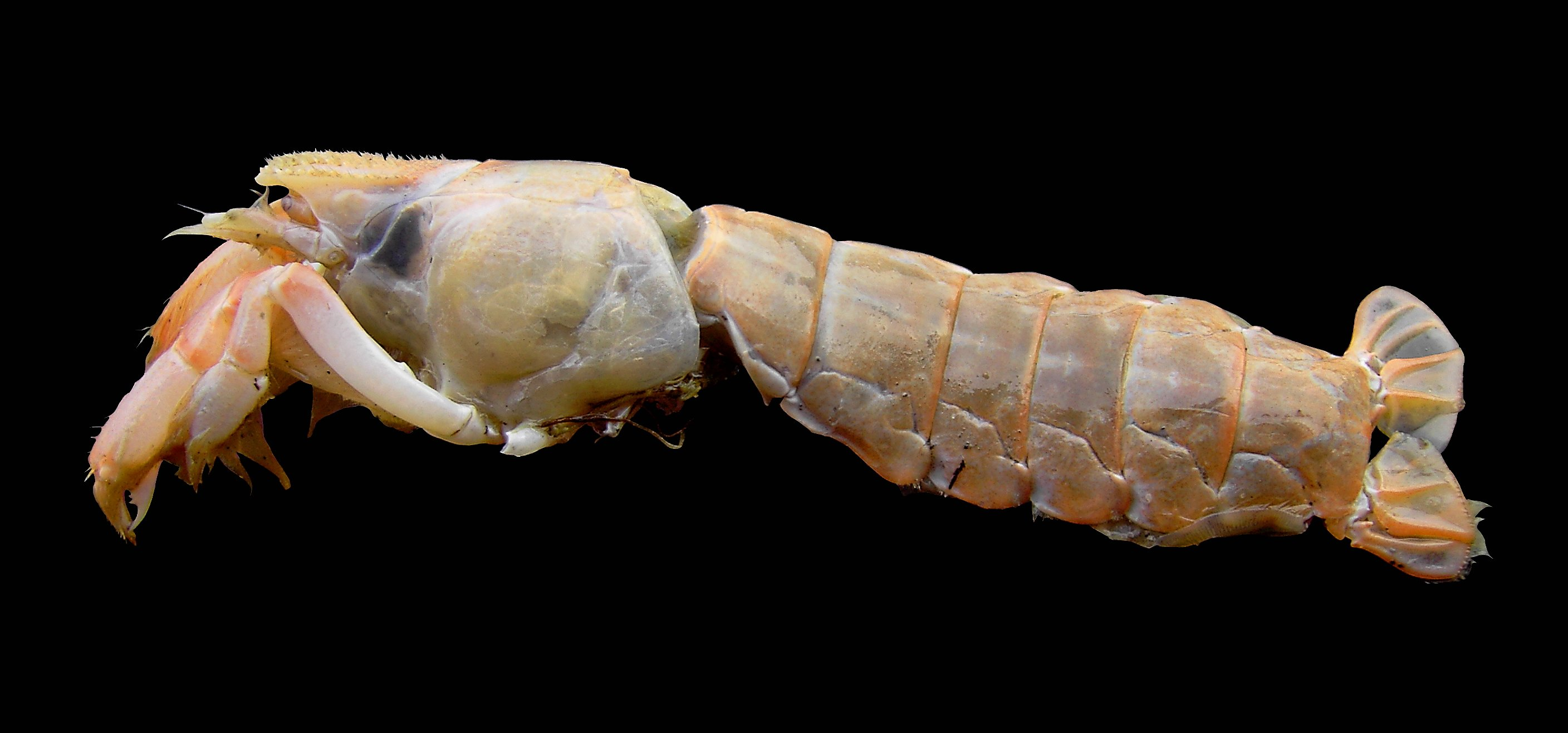 crop of File:Upogebia deltaura.jpg